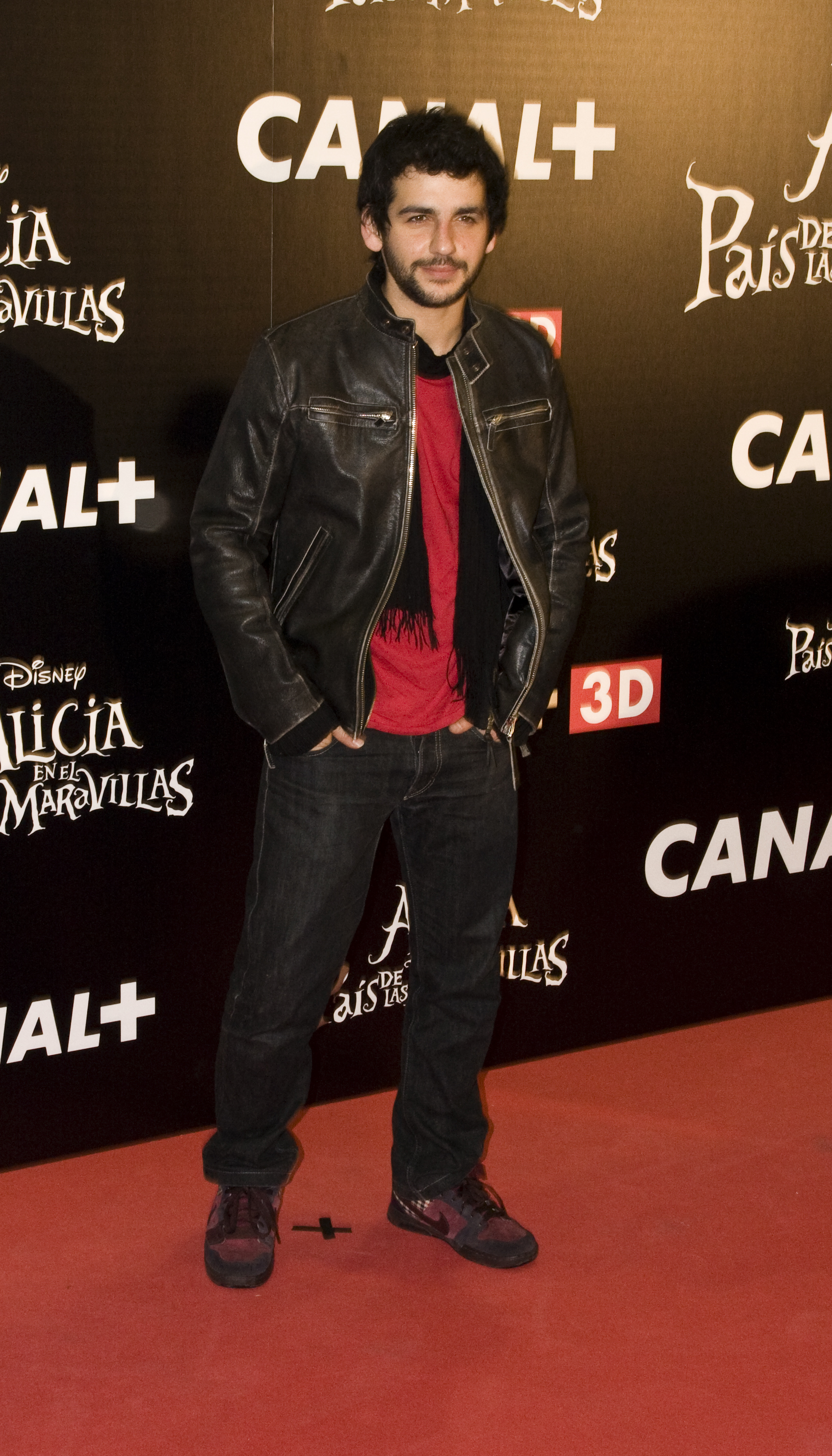 Fran Perea Spanish actor ant singer at the photocall of Alice in Wonderland in 2010.